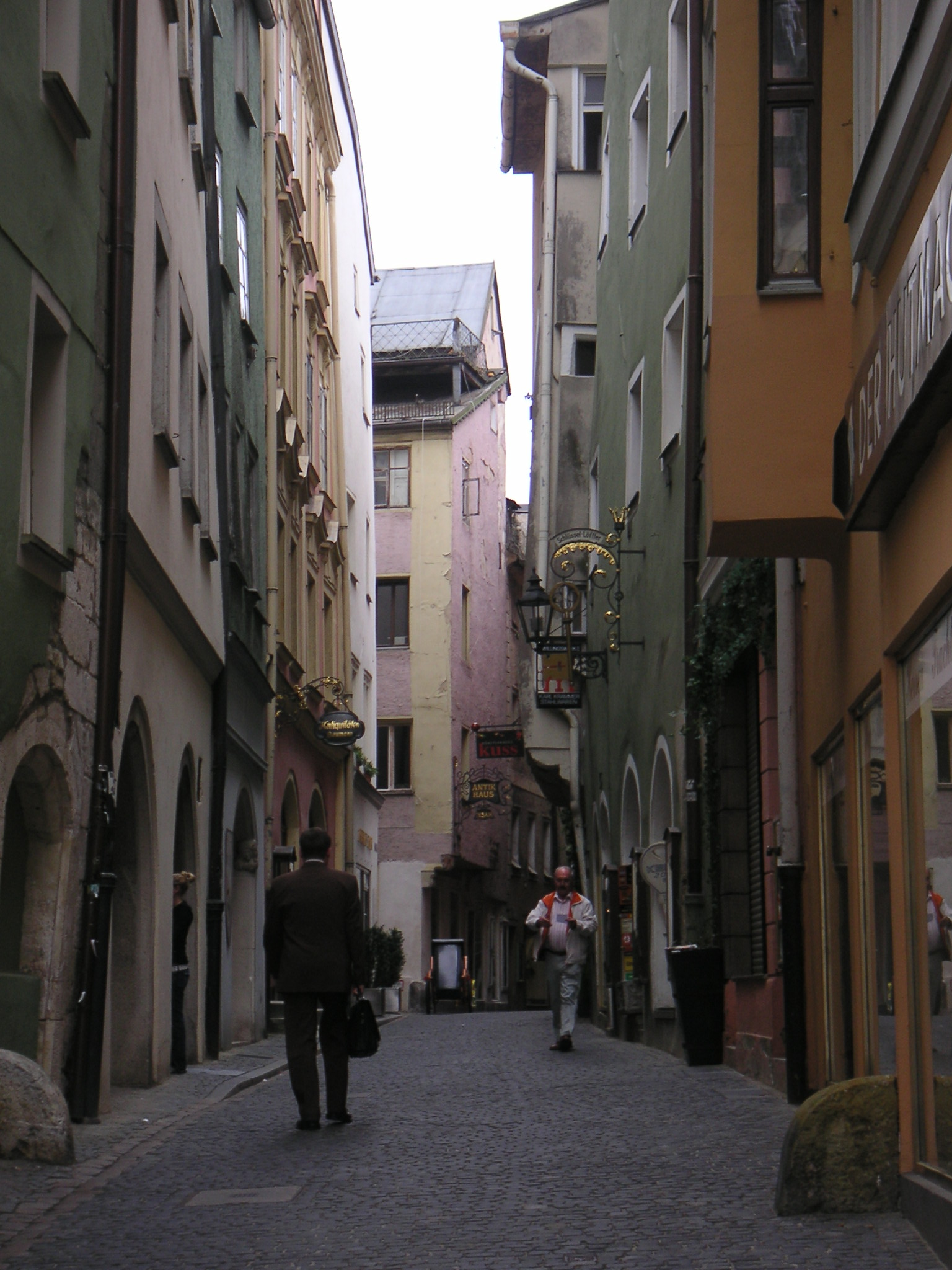 Regensburg, lane “Kramgasse” from cathedral place.